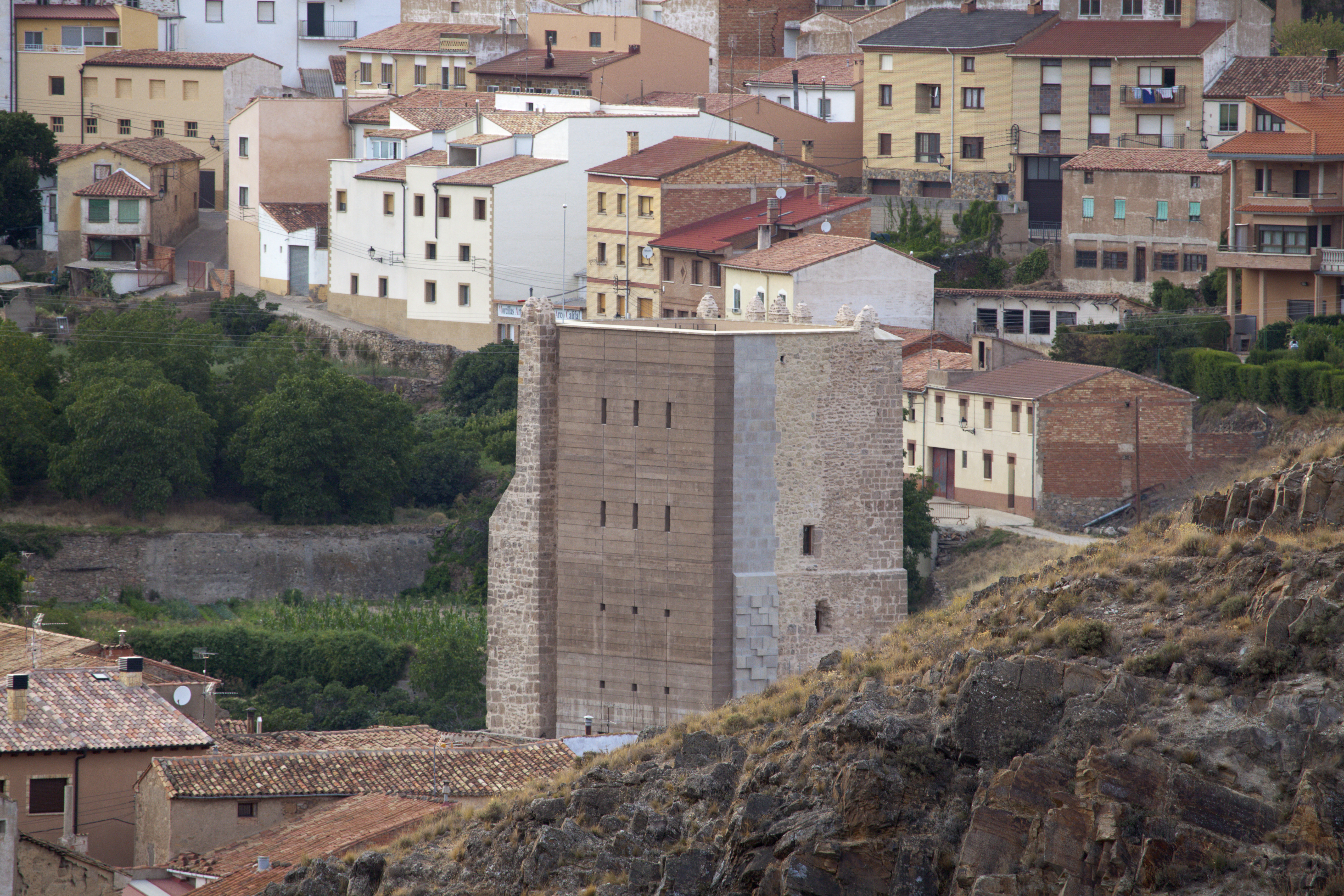 Muela Tower, Ágreda, Spain